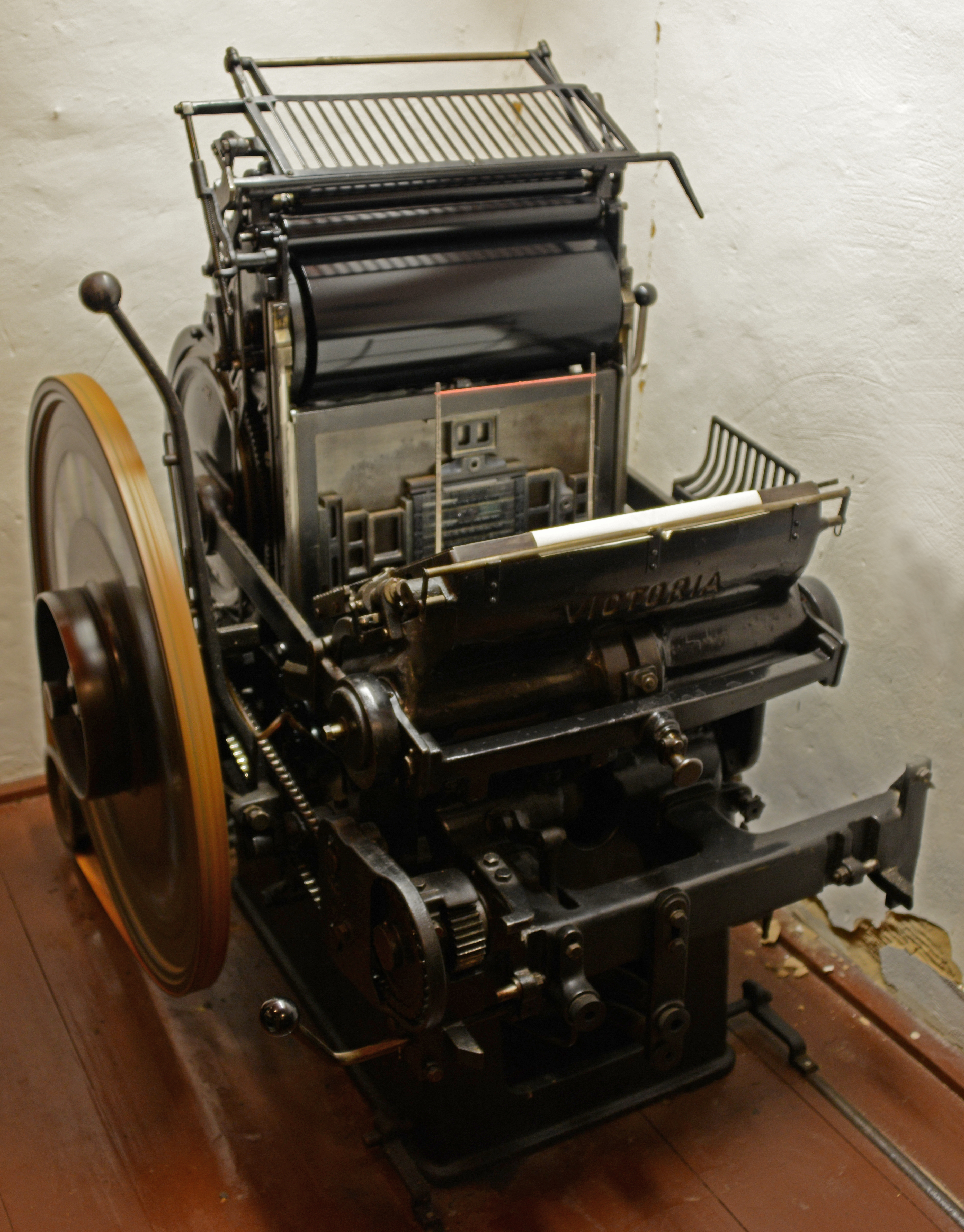 Victira Printin Machine